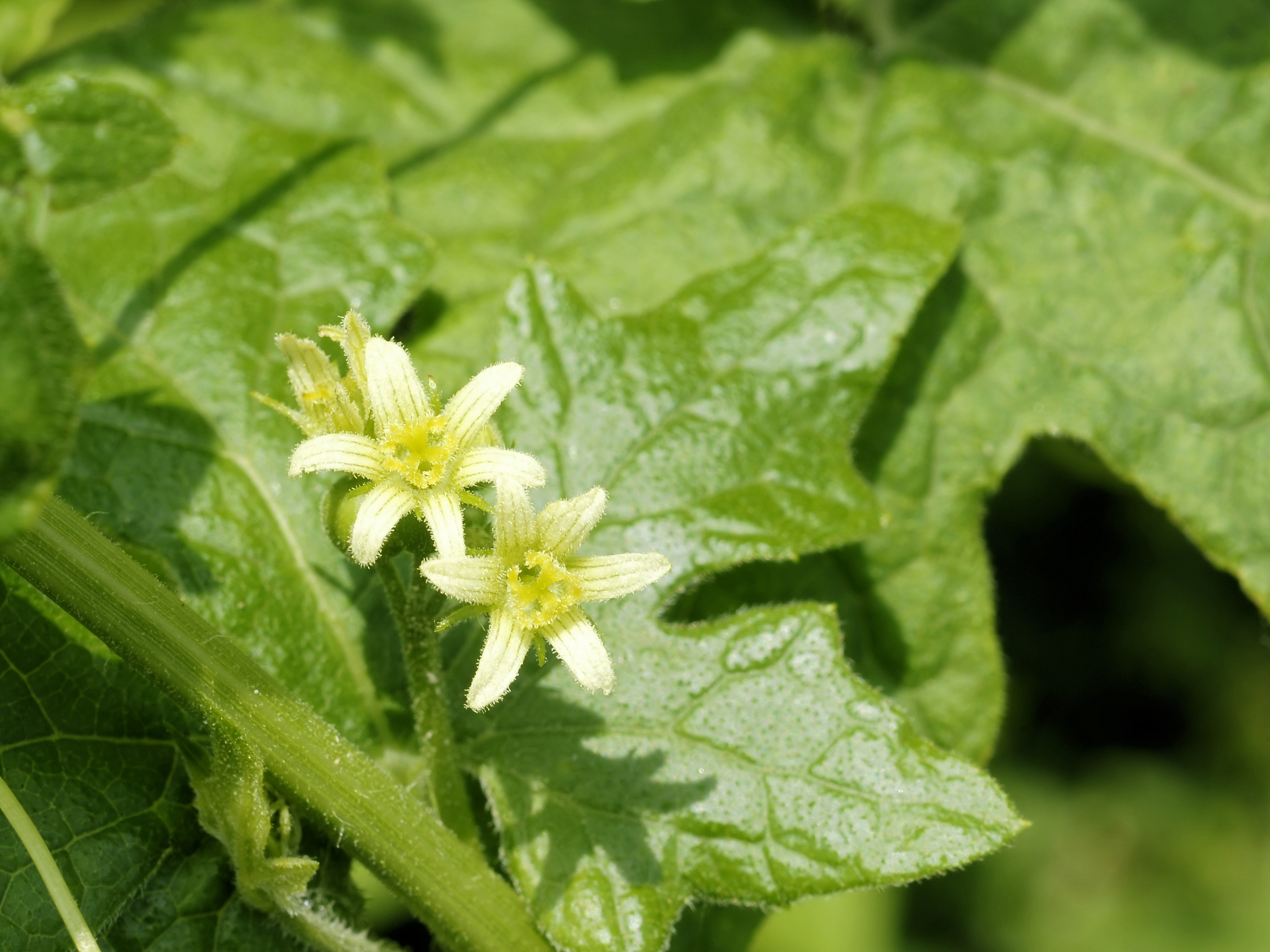 Female flowers of European White Bryony at Vosseslag, De Haan, Belgium